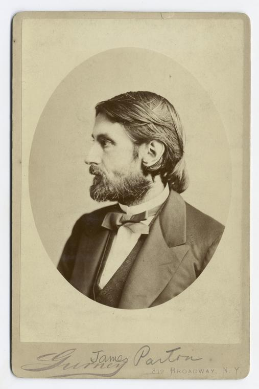 The english-american author James Parton (1822-1891)